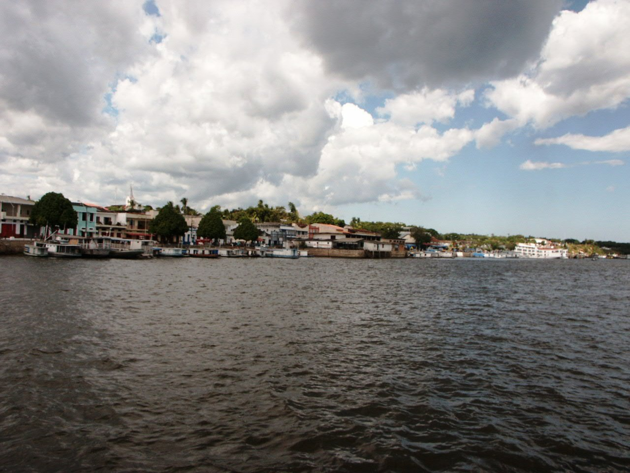 A look to Oriximiná, Pará, Brazil from the Trombetas River